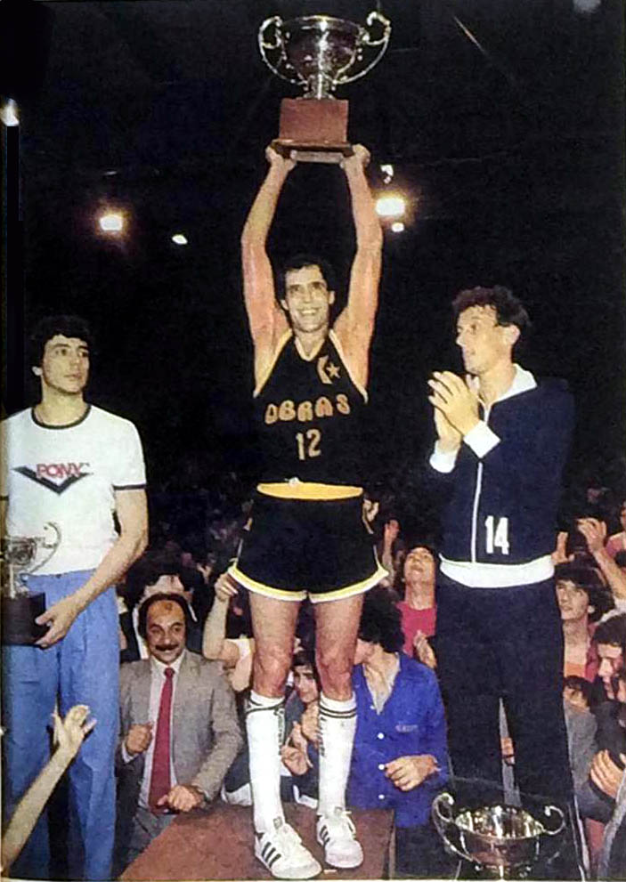 Obras Sanitarias player, Eduardo Cadillac, raising the Intercontinental Cup trophy won in Buenos Aires.